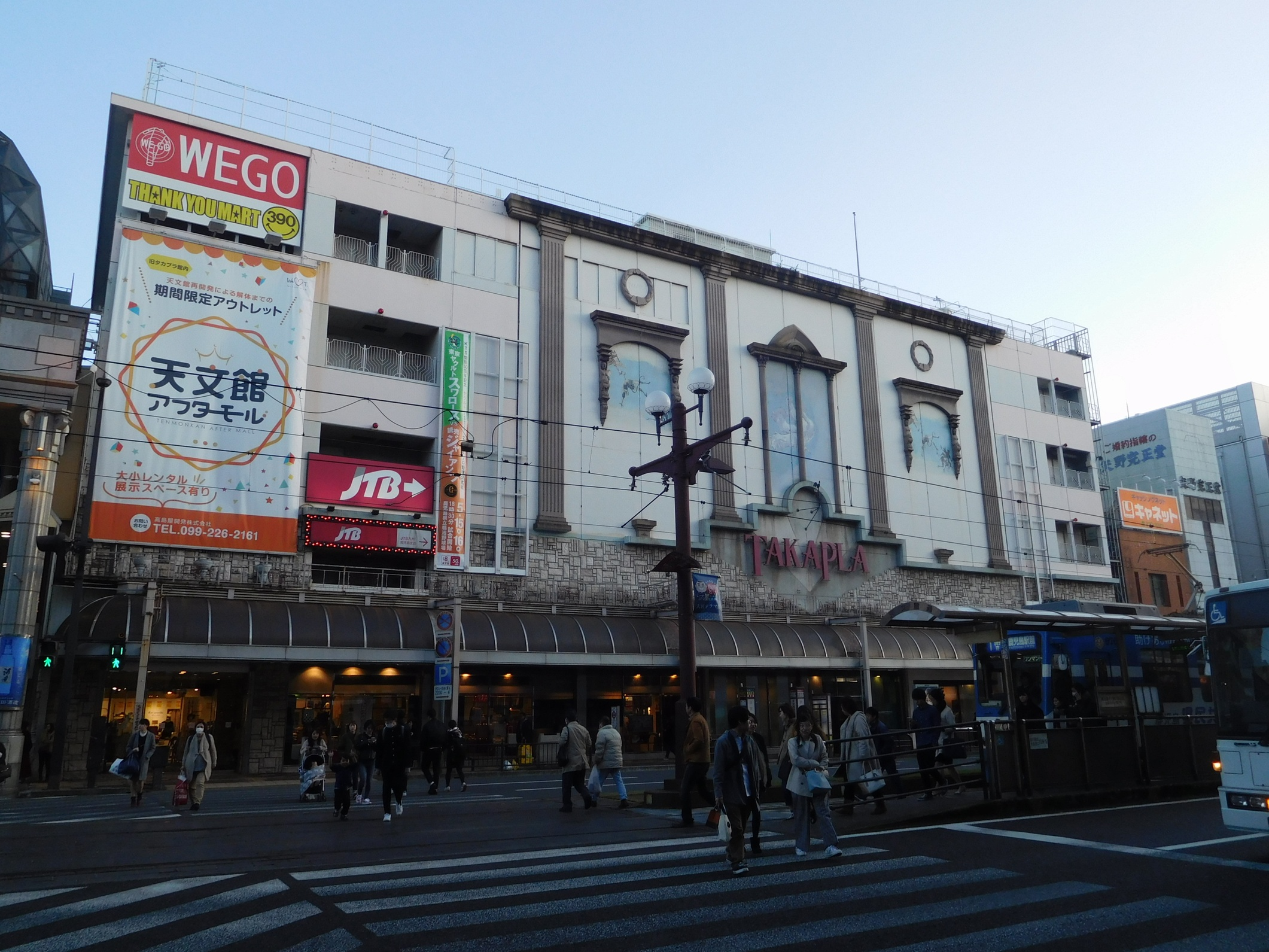 The Tenmonkan After mall, formerly "Takapla", in Central Kagoshima City, Japan)